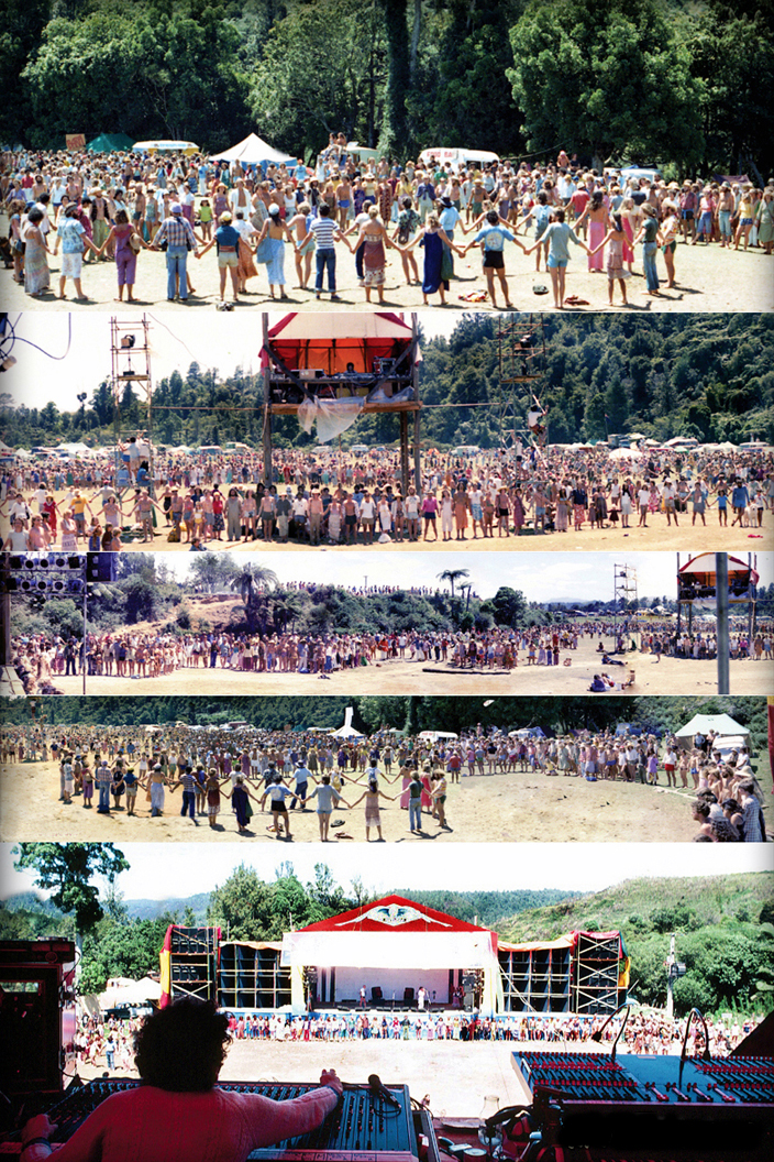 The 1981 Nambassa 5-day festival in New Zealand.